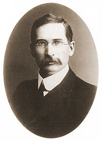 James Barry Munnik Hertzog (1866-1942)